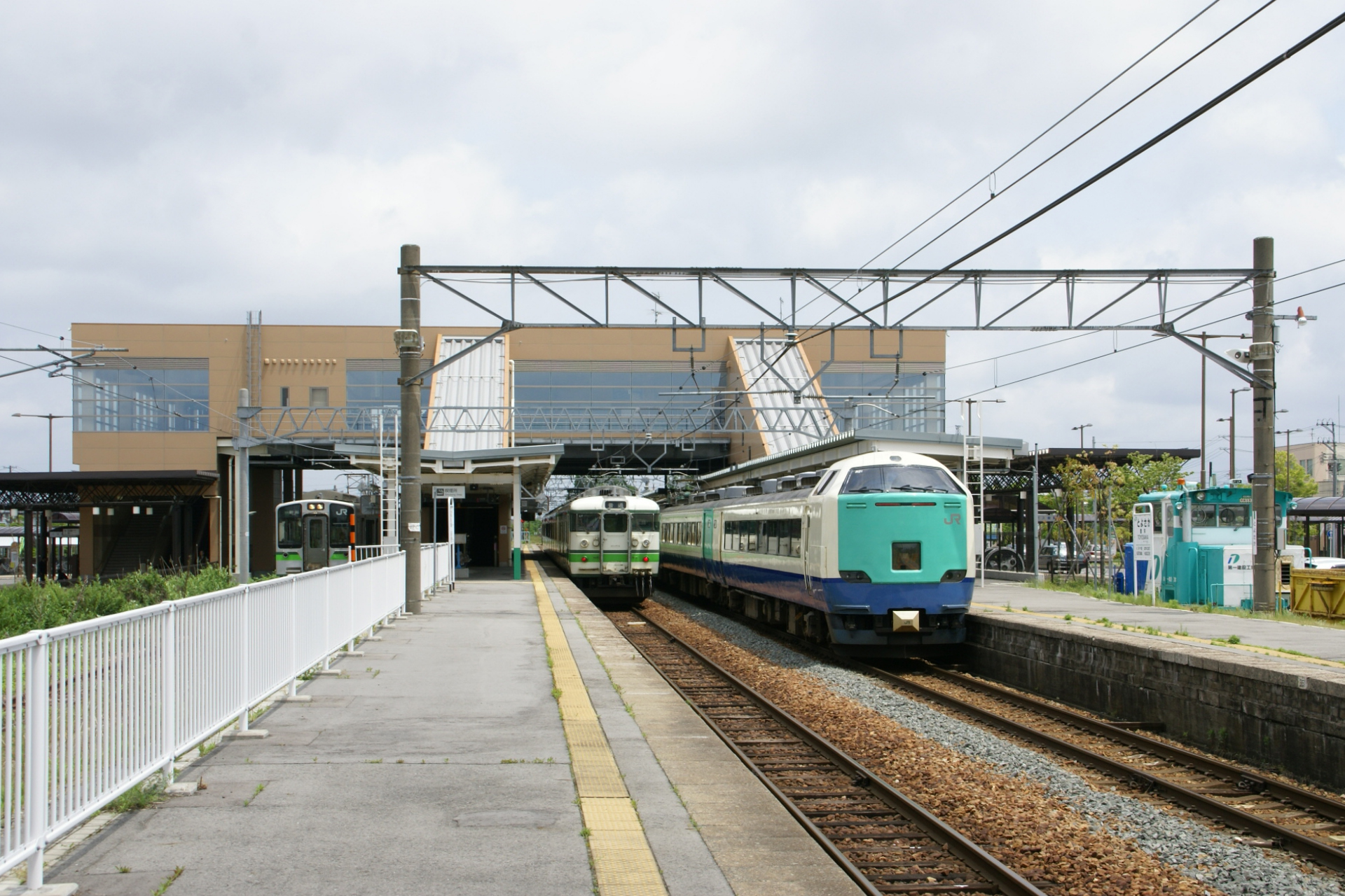 Toyosaka Station platforms with Hakushin Line E127 and 115 series EMUs and a 485 series on an Inaho service visible